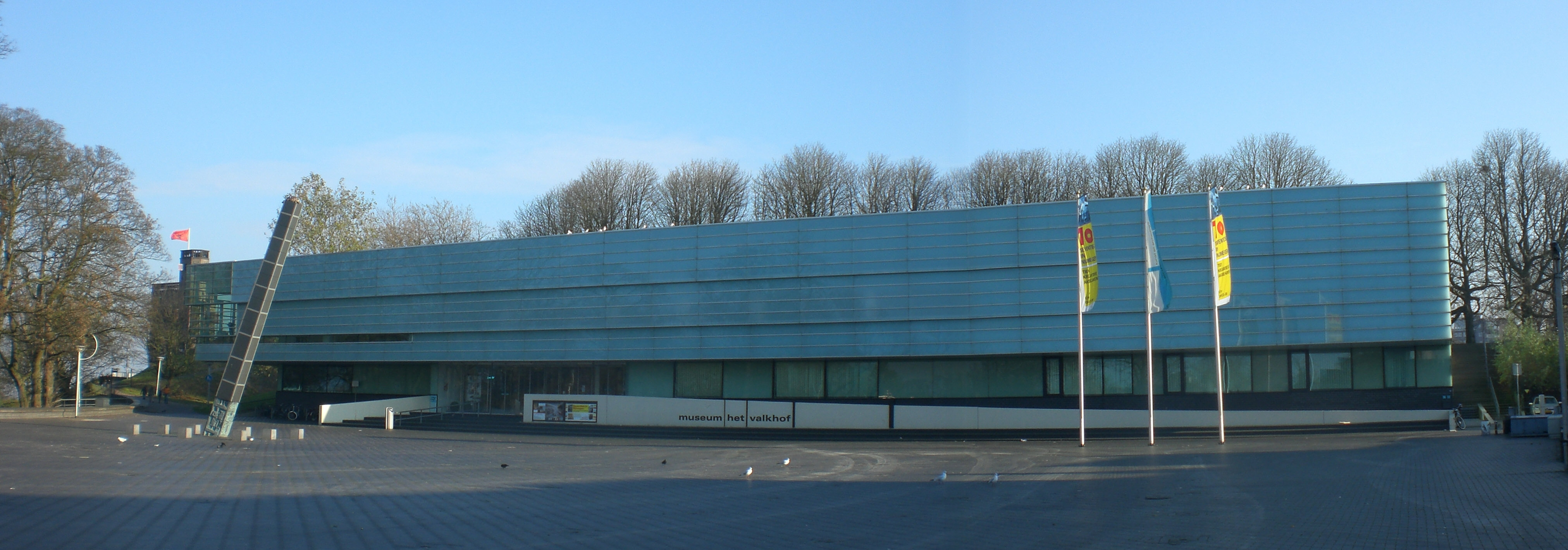 Museum Het Valkhof Native nameMuseum Het ValkhofLocationNijmegen AddressKelfkensbos 596511 TB NijmegenNetherlandsCoordinates51° 50′ 47″ N, 5° 52′ 16″ E Established1999 Web page control : Q1127079 VIAF: 158715438 ISNI: 0000 0004 0533 6734 LCCN: no2002025807 GND: 5519052-2 SUDOC: 075891700 WorldCat institution QS:P195,Q1127079